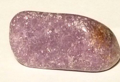 Tumbled Lepidolite, found in Ruissia